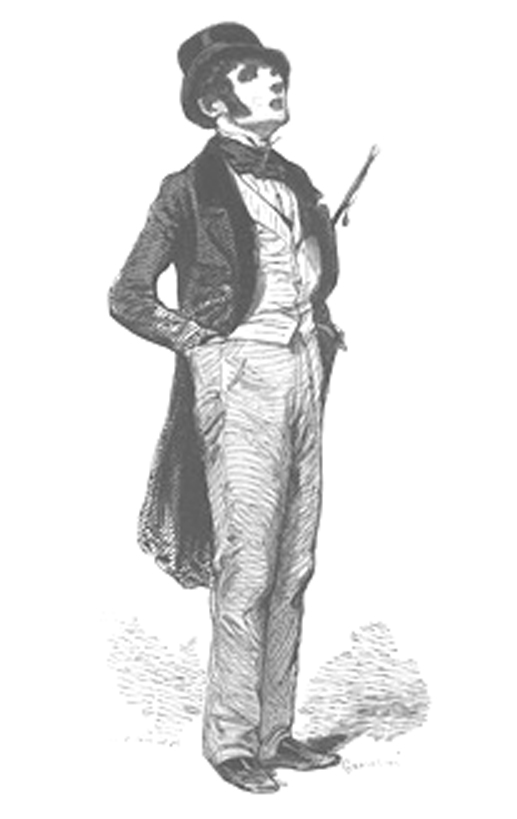 Flâneur